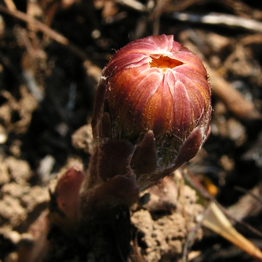 Unopened inflorescence of Tussilago farfara. Moscow region, Russia.